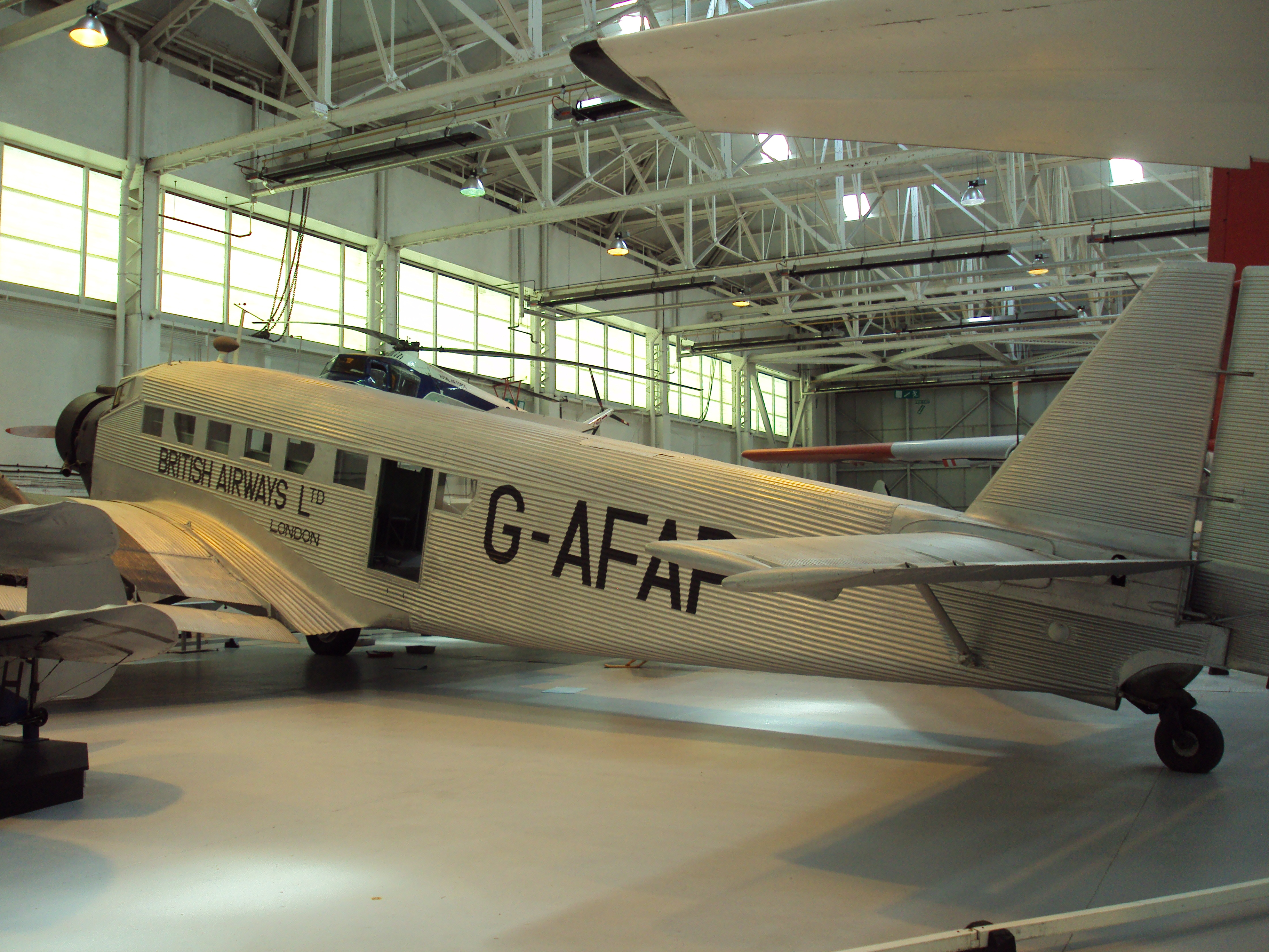 A Spanish built Junkers Ju 52 painted to represent G-AFAP of British Airways Ltd ca. 1939. Photo taken at the RAF Museum Cosford, Shropshire, England.